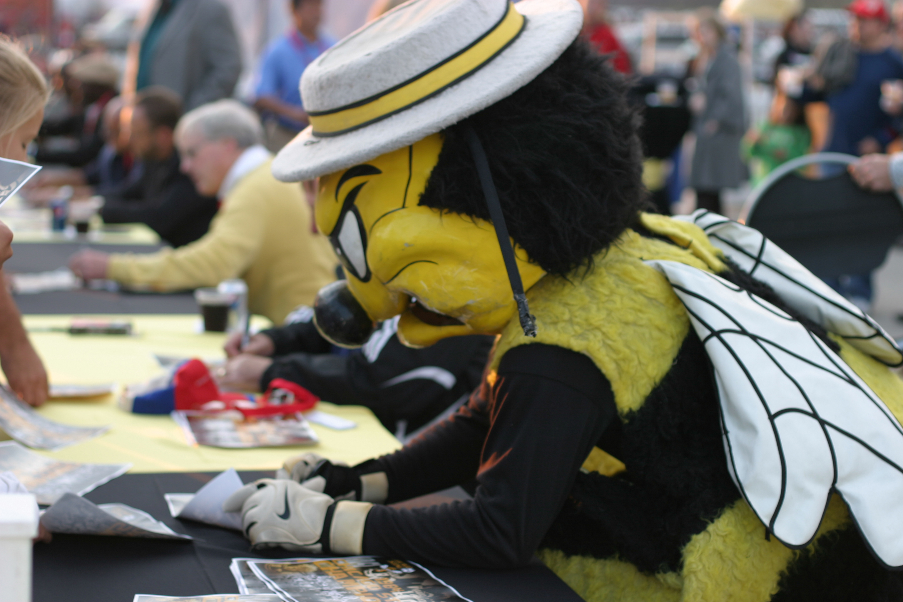 Stanley Sting, the Chicago Sting mascot, signs autographs along with staff, players, and coaches from the team as part of 1984 NASL Champion Chicago Sting Reunion Night, September 26, 2009 at Toyota Park, Bridgeview, Illinois before the Chicago Fire played Toronto FC.